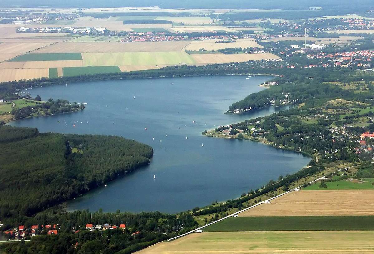 The lake “Kulkwitzer See” in Leipzig, seen to North.